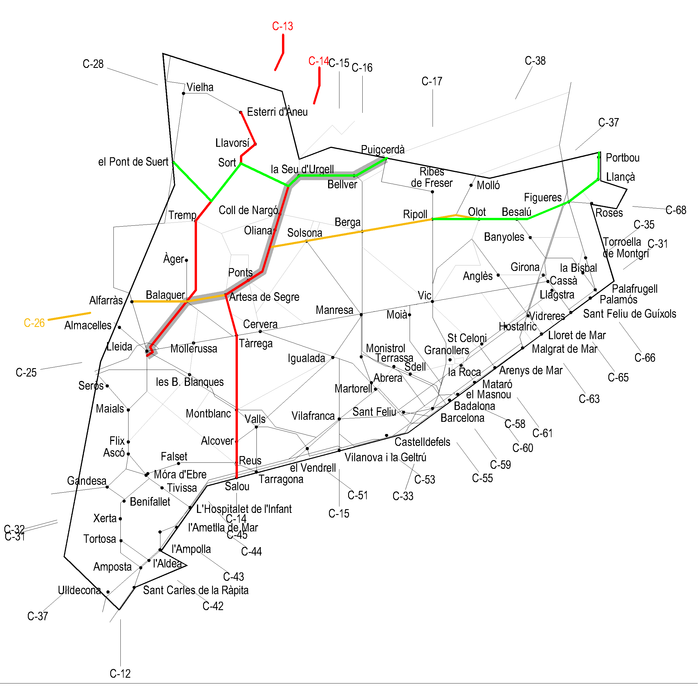 C-1313 Road in a Road scheme of Catalonia